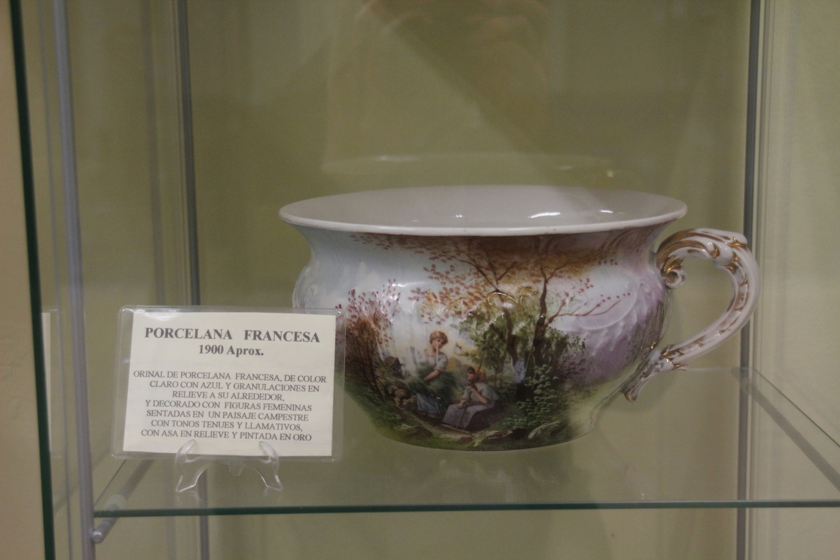 An exhibit from the Museo del Orinal